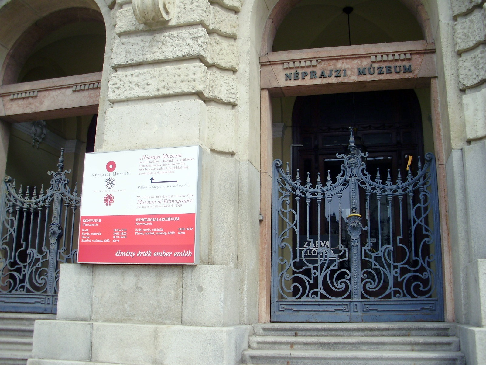 Public closing, expecting next move to another building